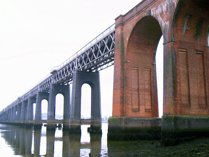 Tay Bridge from Wormit